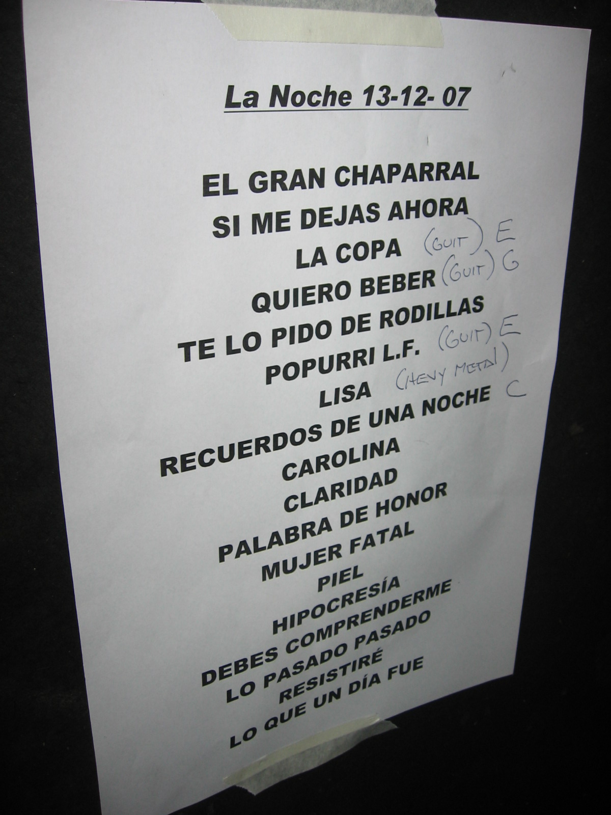 Setlist for Mar de Copas